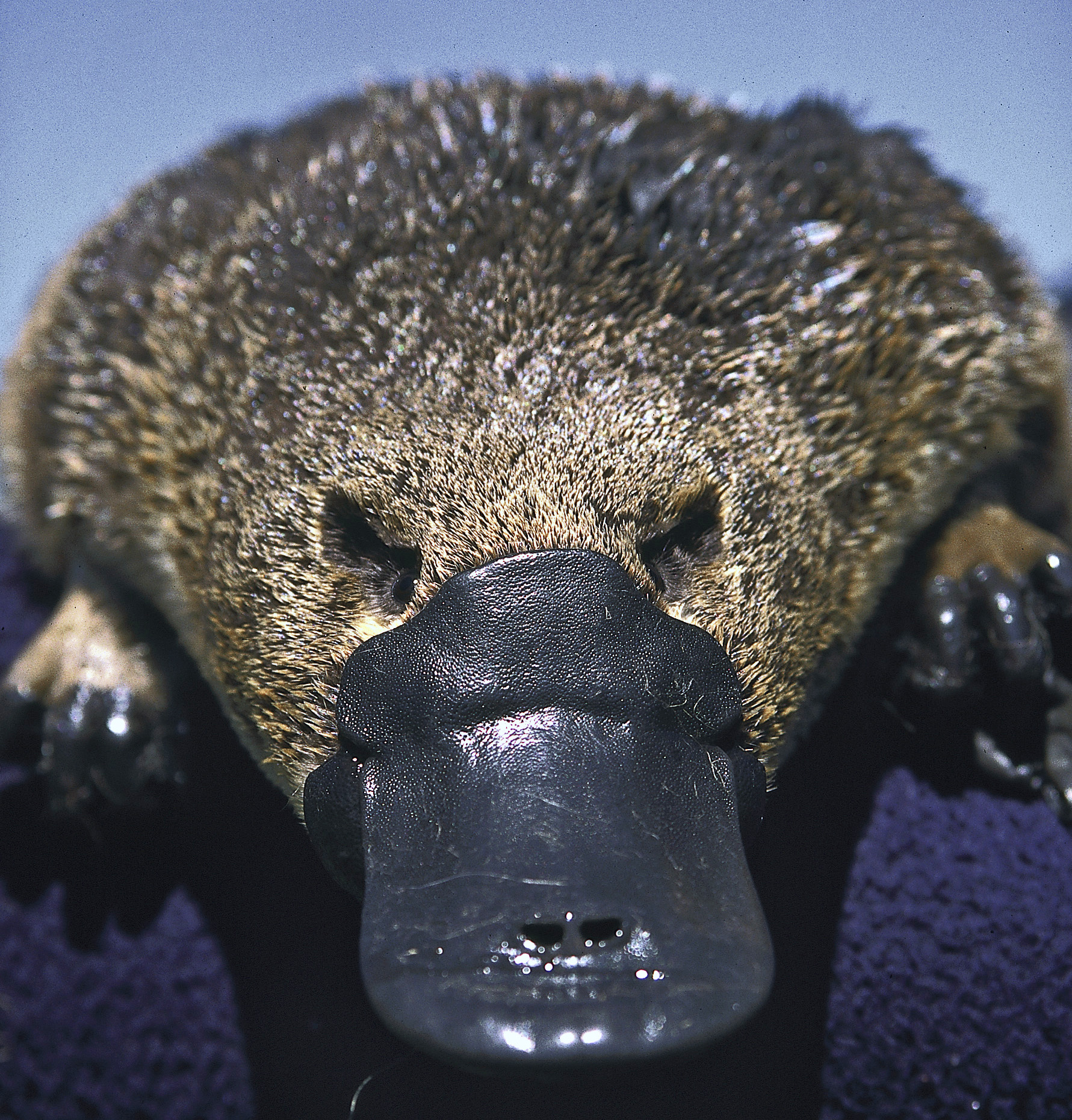 Platypus Ornithorhynchus anatinus